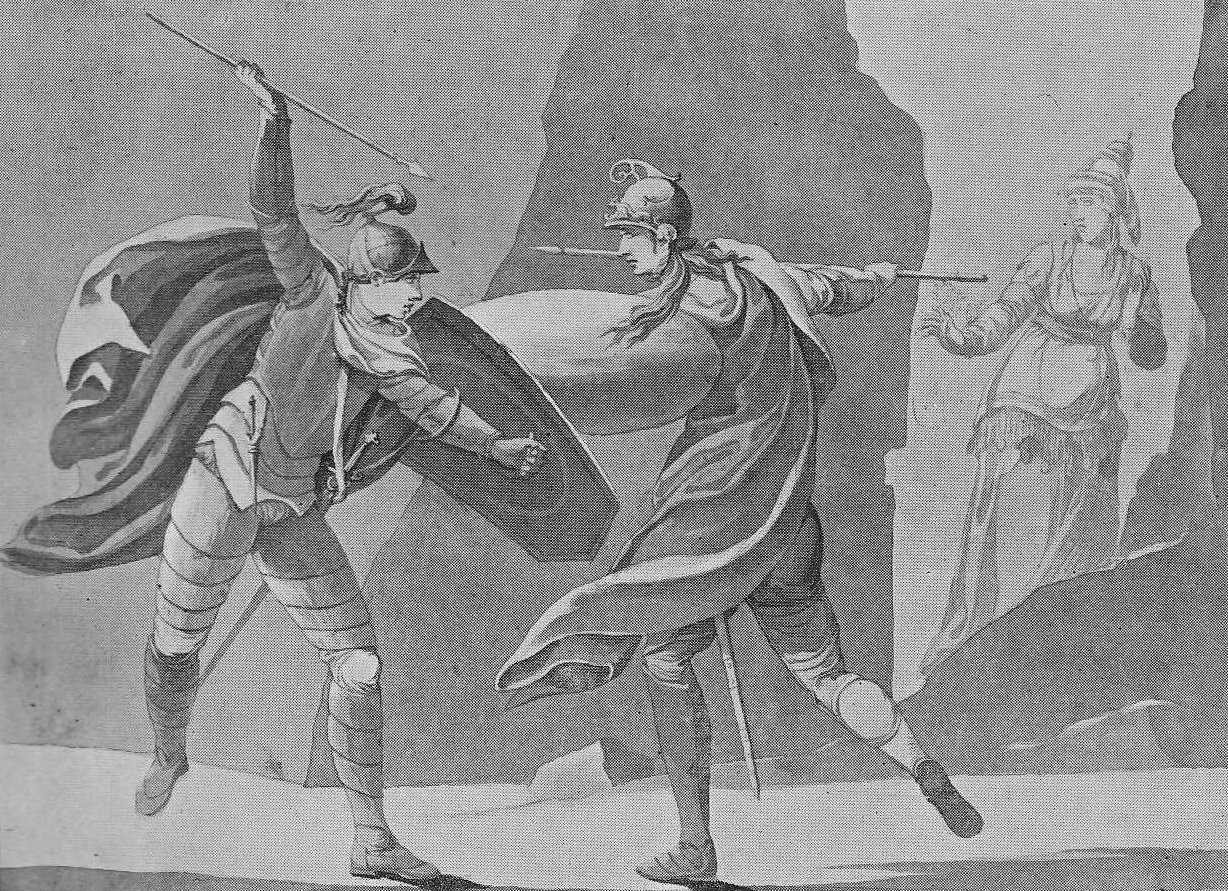 Balder and Hother fight while Nanna watches. A scene from Ewald's 1775 play, Balders død. Act I, Scene 8.